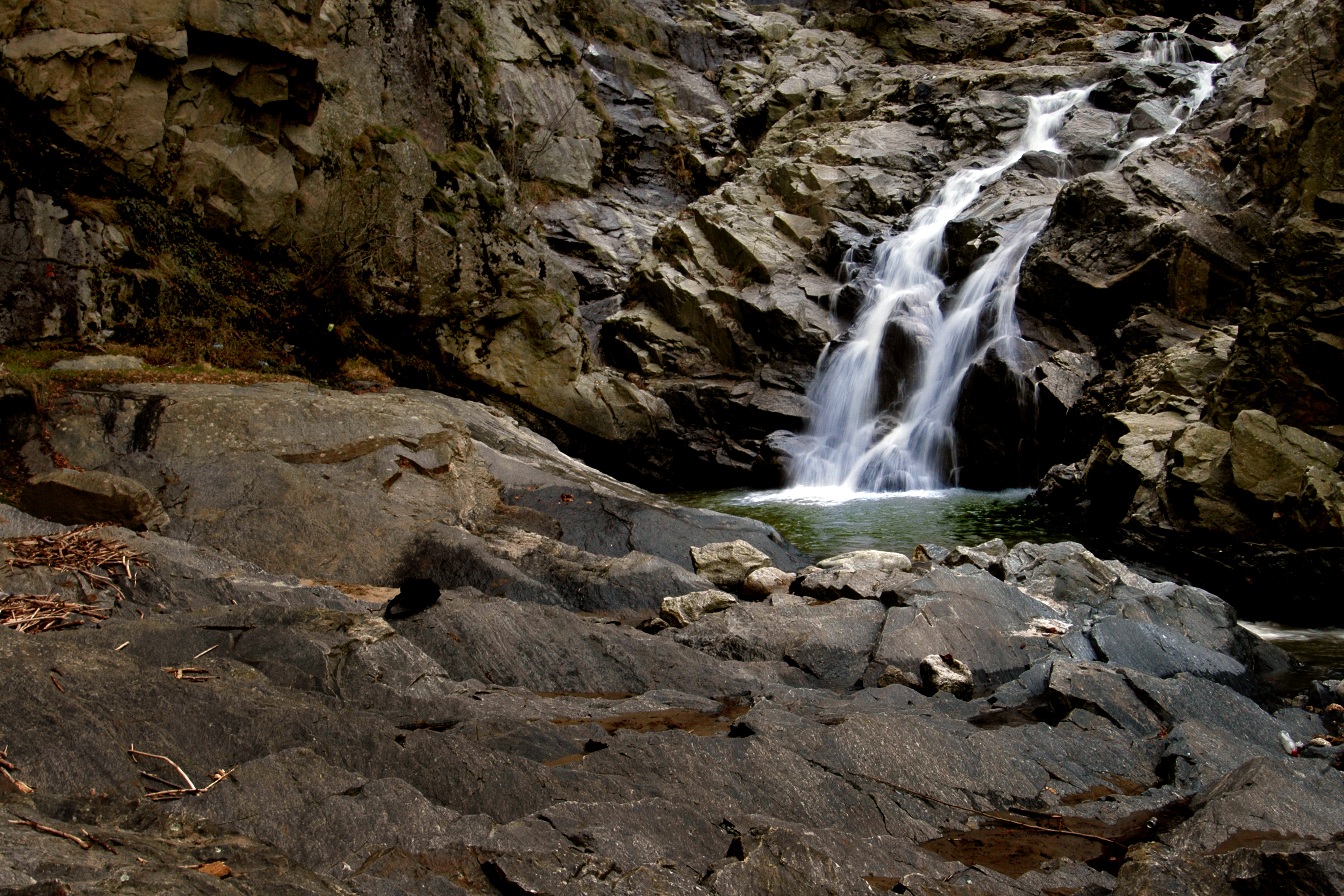 Waterfall of river Vučjanka, near Vučje, Leskovac